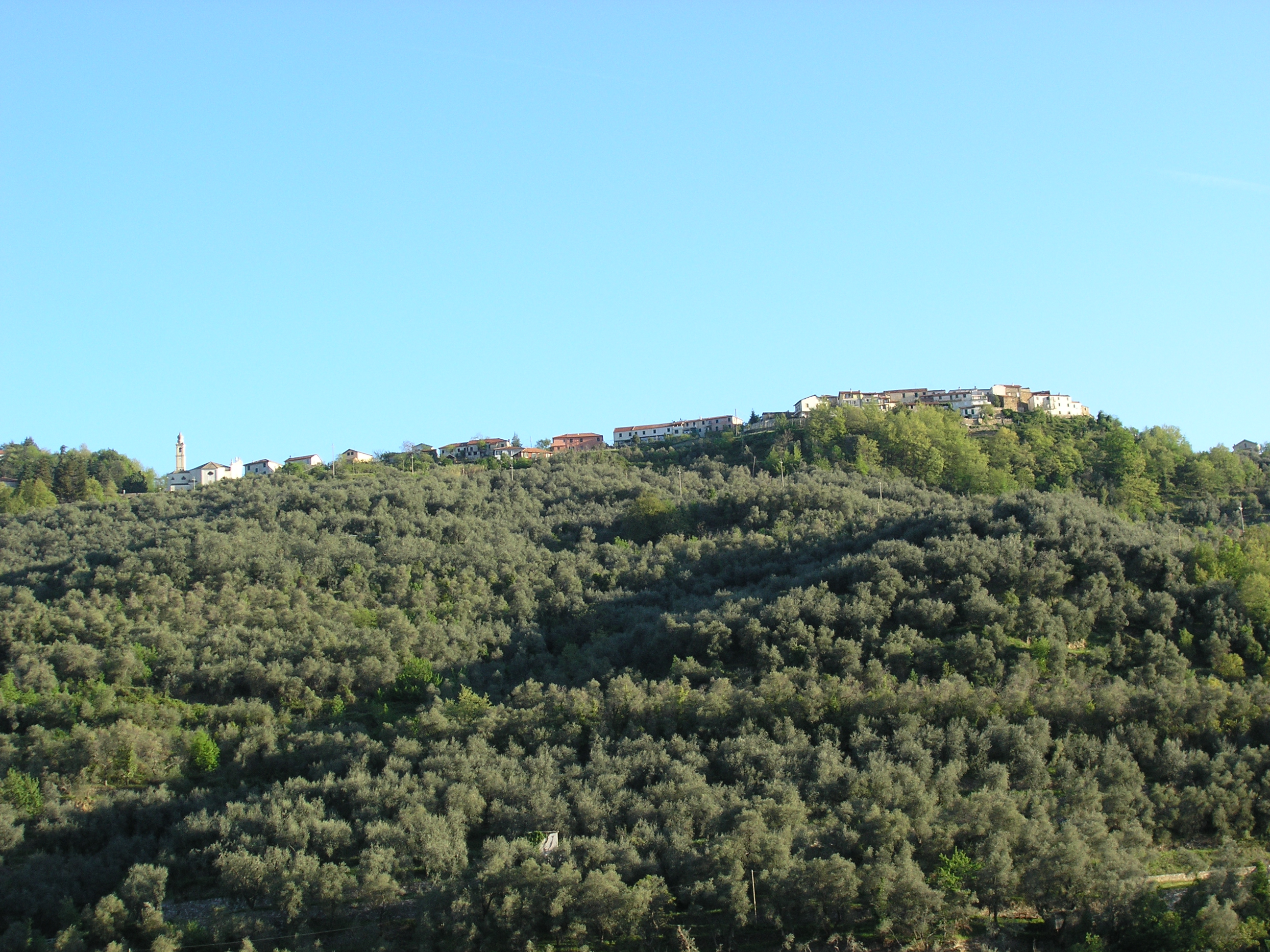 View to Testico from Dani